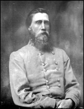 John Bell Hood